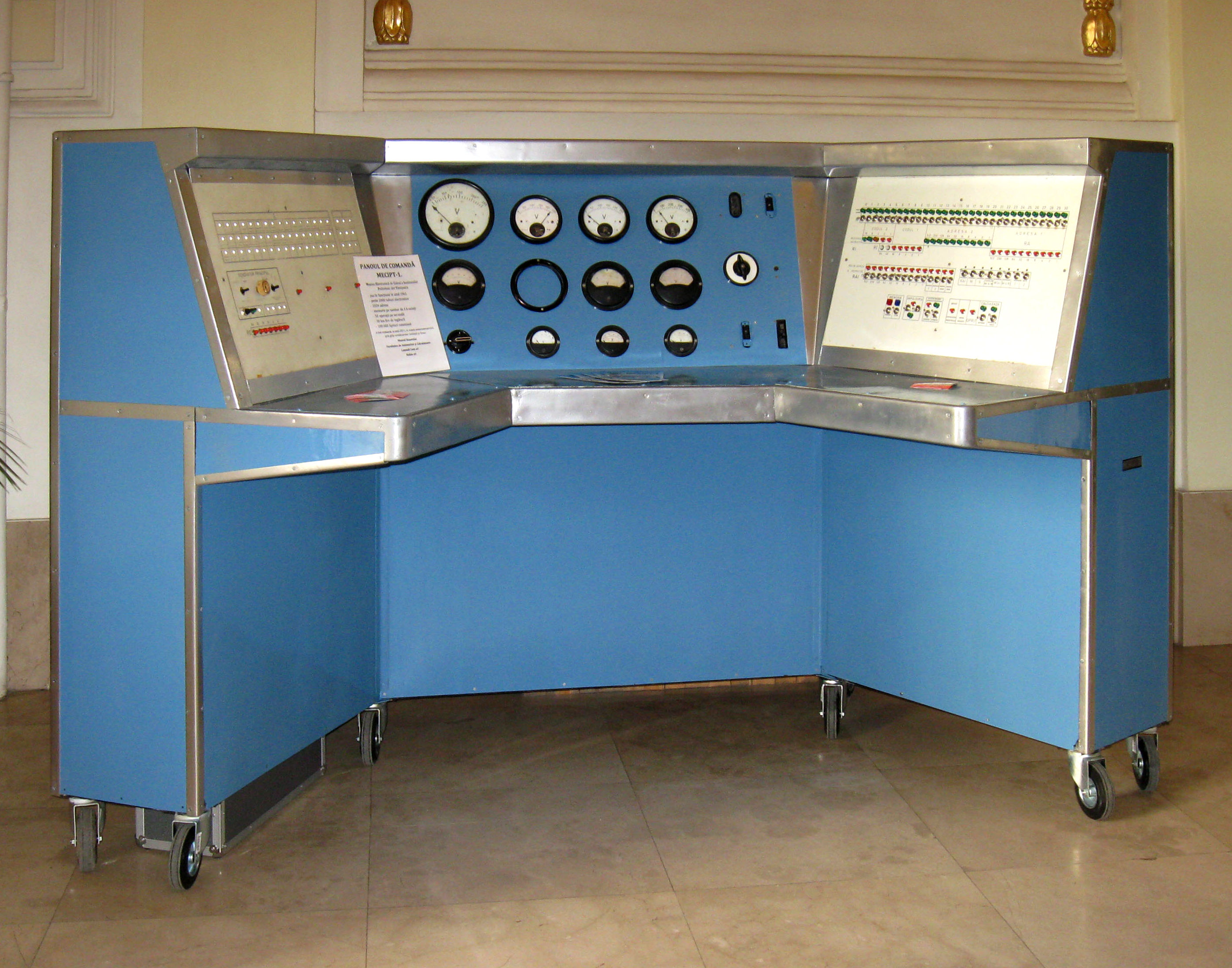 The control desk of MECIPT-1 (restored)